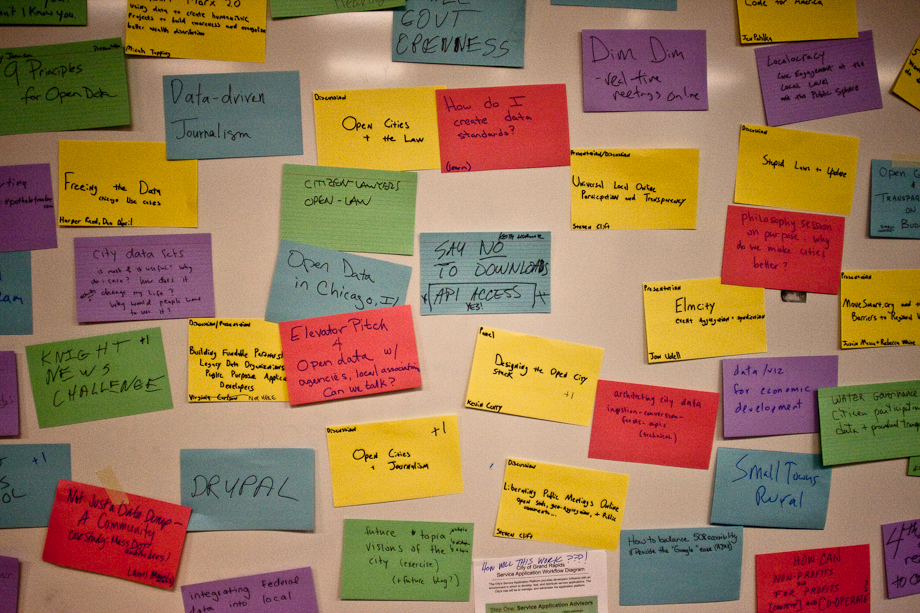 01 CityCamp Idea Board with sticky notes 4297872645 o